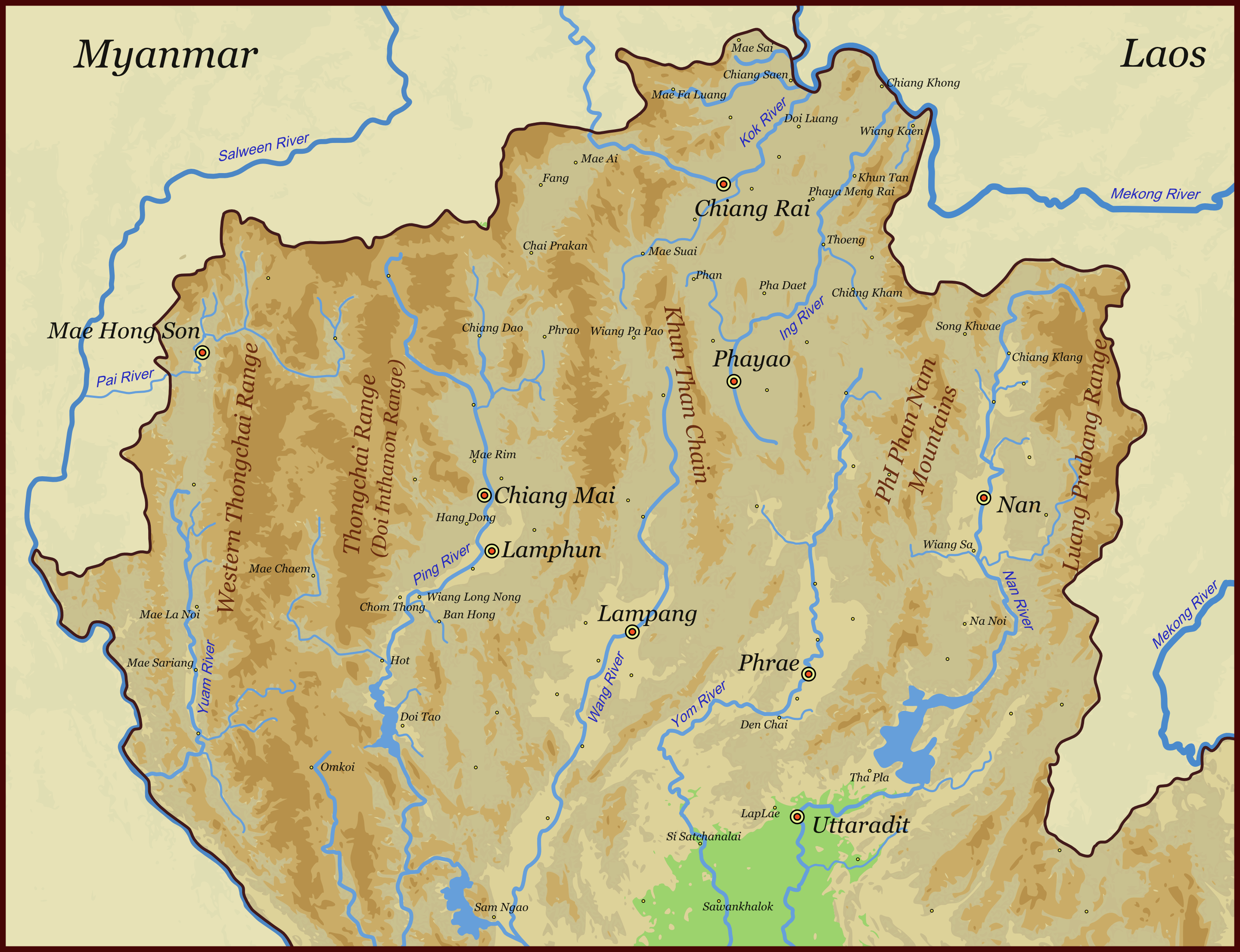 Topography of northern Thailand